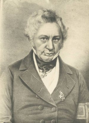 Portrait of merchant Johann Christoph Wöhrmann (Vērmans Johans Kristofs)